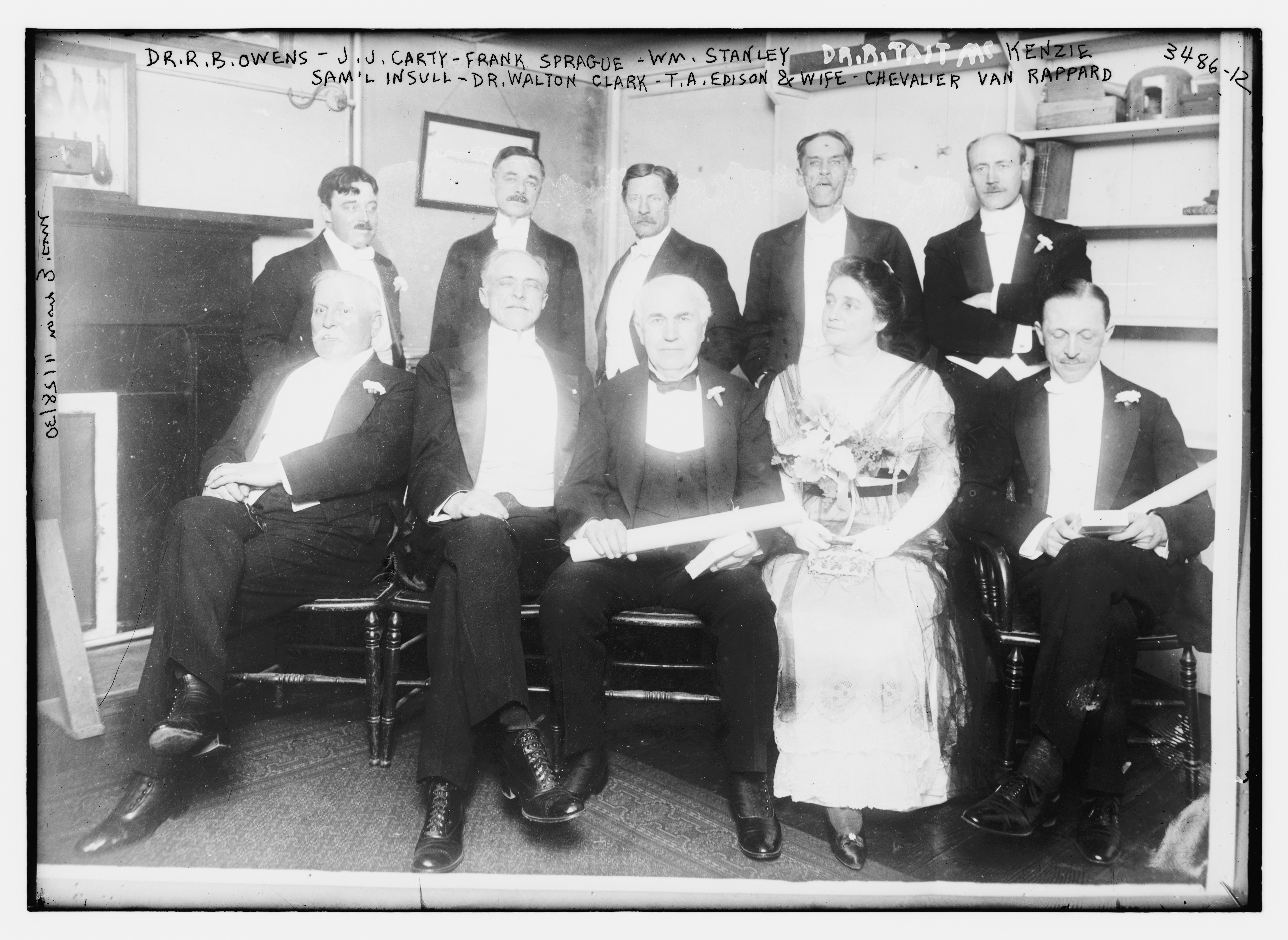 Back row from left to right are: Robert Bowie Owens, John Joseph Carty, Frank Julian Sprague, William Stanley, Robert Tait McKenzie. Front row from left to right are: Samuel Insull, Walton Clark, Thomas Alva Edison and his wife Mina Miller, Chevalier Van Rappard. This image was taken in Philadelphia on May 19, 1915 on the occasion of the awarding of the Franklin Medal. The one awarded to Heike Kamerlingh Onnes was accepted by Chevalier van Rappard. Bain News Service,, publisher. Dr. R.B. Owens, J.J. Carty, Frank Sprague, Wm. Stanley, Sam'l Insull, Dr. Walton Clark, T.A. Edison and wife, Chevalier Van Rappard, Dr. R. Tait McKenzie 1 negative : glass ; 5 x 7 in. or smaller. Notes: Title from unverified data provided by the Bain News Service on the negatives or caption cards. Forms part of: George Grantham Bain Collection (Library of Congress). Format: Glass negatives. Repository: Library of Congress, Prints and Photographs Division, Washington, D.C. 20540 USA, General information about the Bain Collection is available at Higher resolution image is available (Persistent URL):Call Number: LC-B2- 3486-12